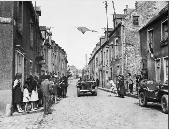 The French Tricolour floats over a street in Carentan, the first French town to be liberated by the Americans. French civilians wave their hands in welcome as men of the US 7th Corps pass through the streets after two days of bitter fighting The capture of Carentan materially strengthened the link between the two American beachheads.